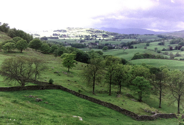 From Lily Fell, Staveley. Looking WNW from Lily Fell towards Banner Rigg.